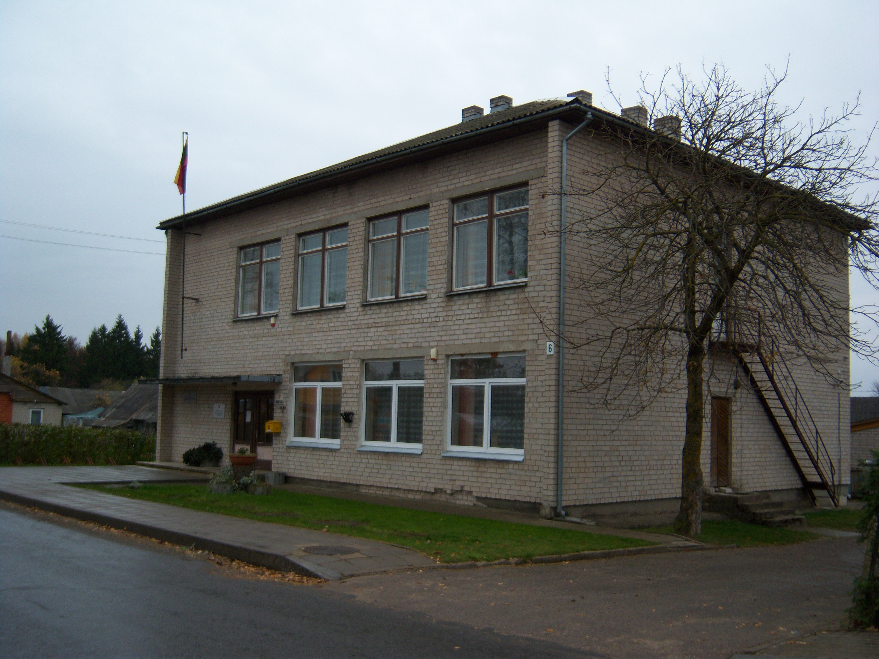 Šimonys Eldership, Kupiškis District, Lithuania